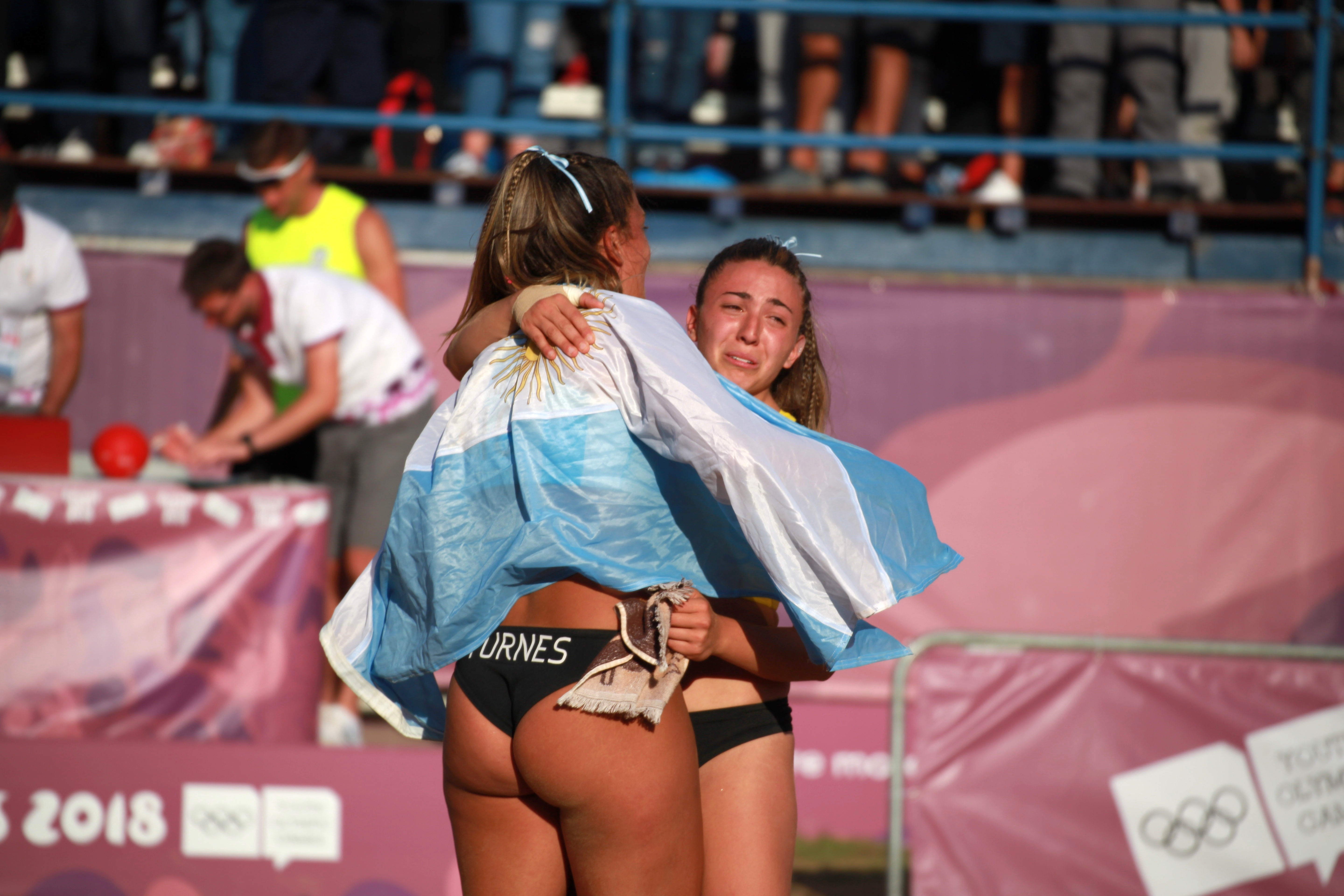 Beach handball at the 2018 Summer Youth Olympics in Buenos Aires at 13 October 2018 – Girls Gold Medal Match – Argentina-Croatia 2:0